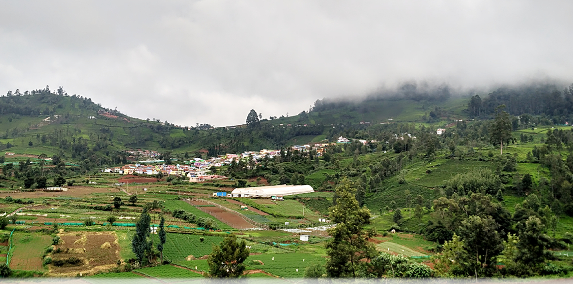 Thambatty, 1 of the best view